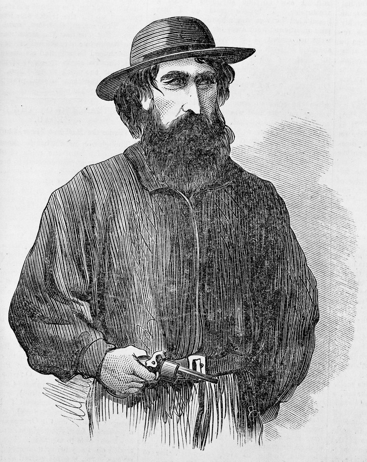 Wood engraving of Australian bushranger Dan Morgan.